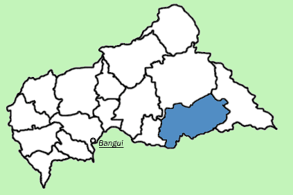 Map showing location of Mbomou_Prefecture in Central African Republic